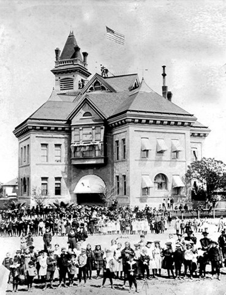 K Street School, located SE corner of K and Santa Clara streets, constructed in 1889 of brick. [1] R.L. Young was the architect. [1] Total cost was $20,000, containing 12 rooms, of which eight were classrooms. [1] Featured two octagonal central halls, with hall on upper floor seating 600 as an auditorium. [1]The school functioned as the city's high school until 1896, when Fresno High School was dedicated. The K Street building later housed the Emerson Elementary School, and was demolished ca. 1930. This is the first graduating class of Emerson Elementary. The probable birth year of students is between 1885, when the city of Fresno was incorporated, and 1893, when Kings County was established, assuming school was K-6 and assuming Kindergarten age was 4 years old with 6th graders estimated at age 12.